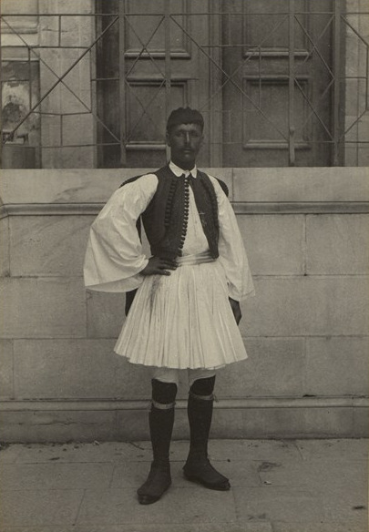 Spyridon Louis at the 1896 Summer Olympics